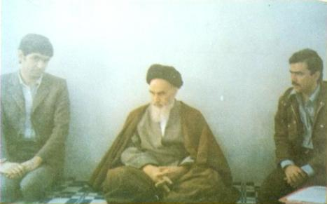 Meeting of Massoud Rajavi (right) and Mousa Khiabani (left) of the People's Mujahedin of Iran with Ruhollah Khomeini, in his residency in Qom